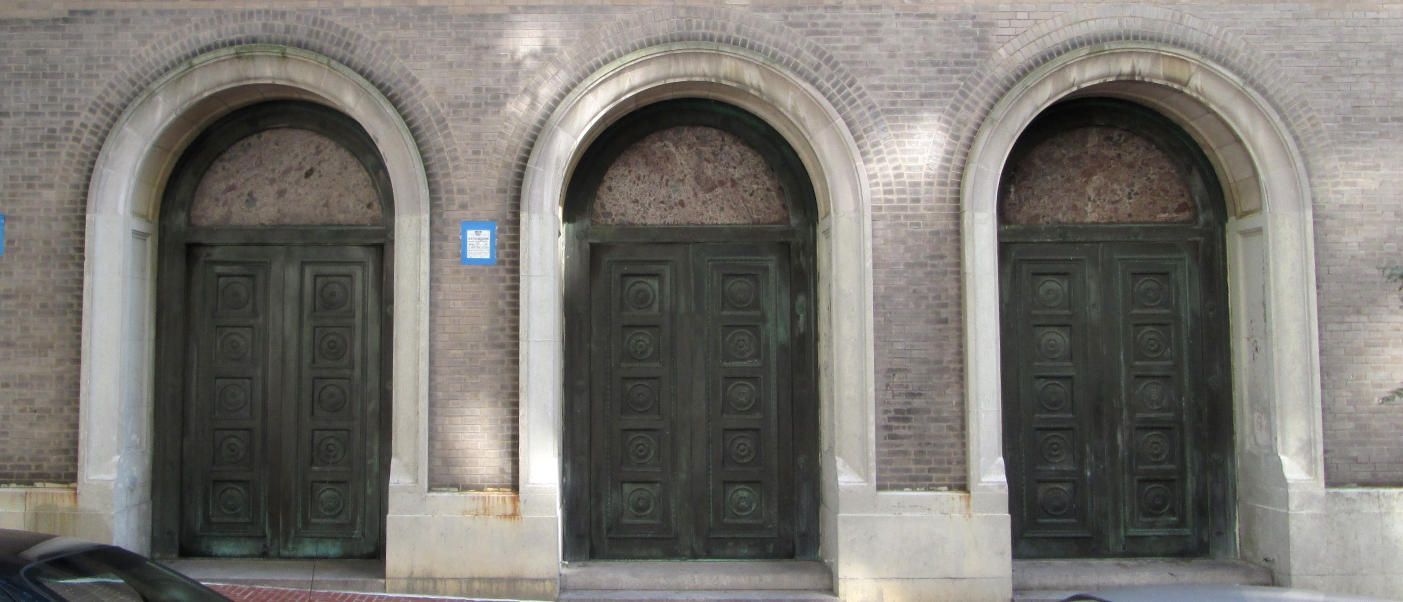 The auditorium and gallery building of the American Academy of Arts and Letters in Audubon Terrace in the Washington Heights neighborhood of Manhattan, New York City was built in 1928-30 and was designed by Cass Gilbert, a member of the Academy, in the Anglo-Italian Renaissance style. (Source: AIA Guide to NYC (5th ed.))